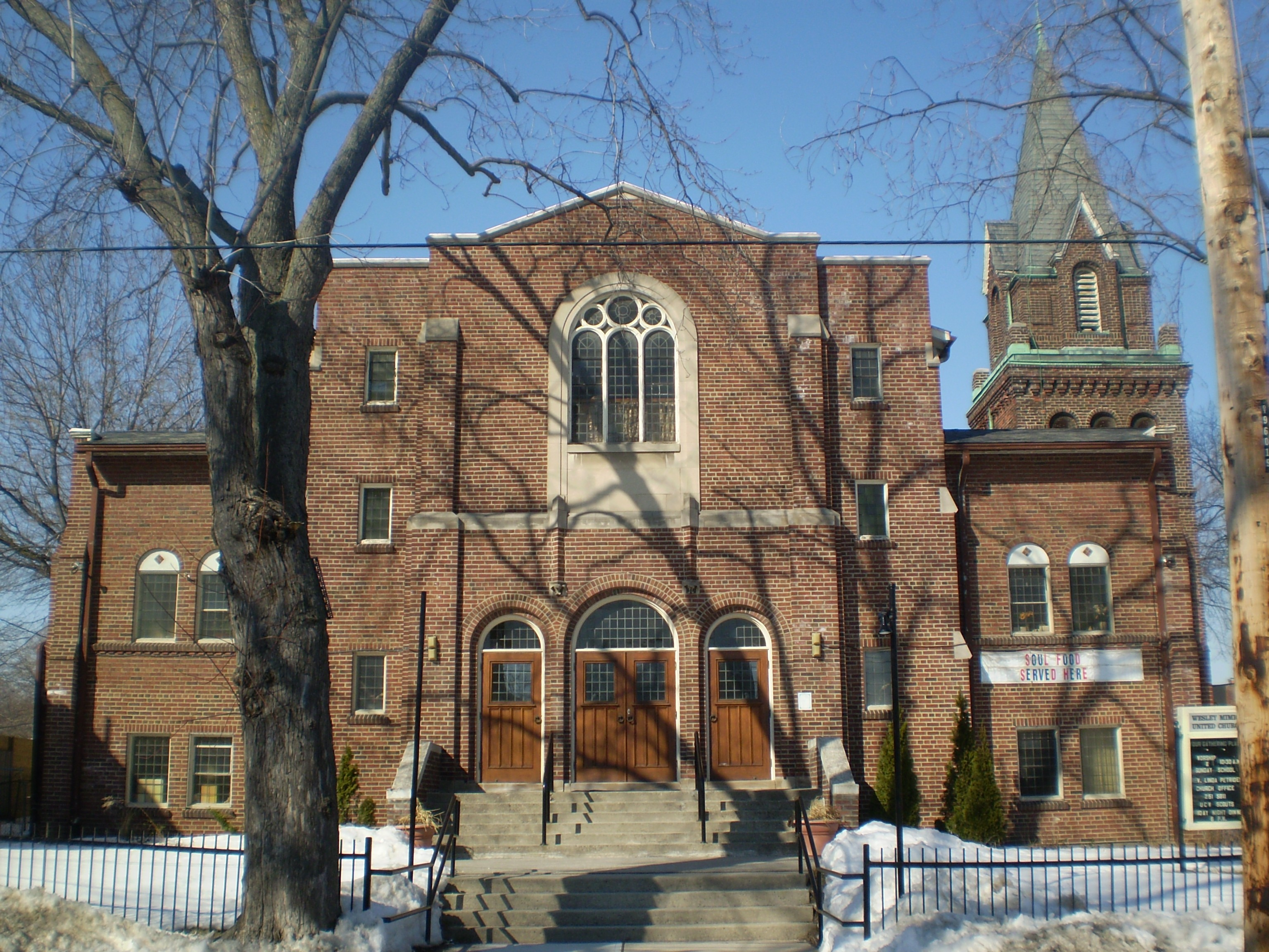 Photo of Wesley Mimico United Church former church building on Mimico Ave at Station Rd in Mimico